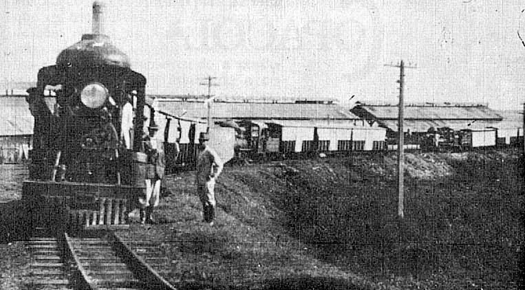 Train leaving Guaíra bound for Porto Mendes. Originally published in "Obrageros, mensus and settlers: the story of West paranaense by Ruy Christovam Wachowicz, Curitiba: Vicentina Ed., 1982. 206 p. Removed from the site The first railroad west of the Paraná - Centro-Oeste 87 (1-Feb-1994) by Flávio R. Cavalcanti.